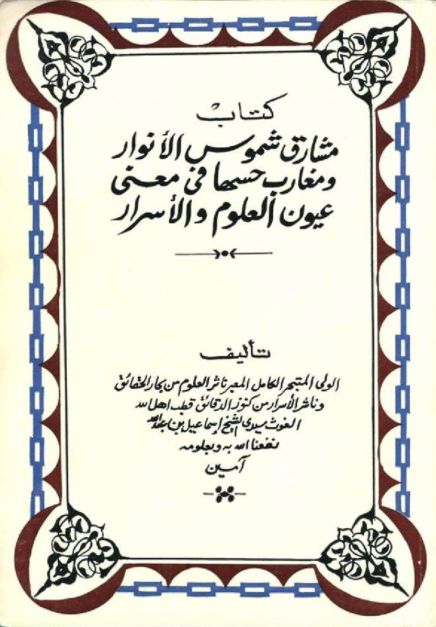 Sheikh Ismail Al wali book